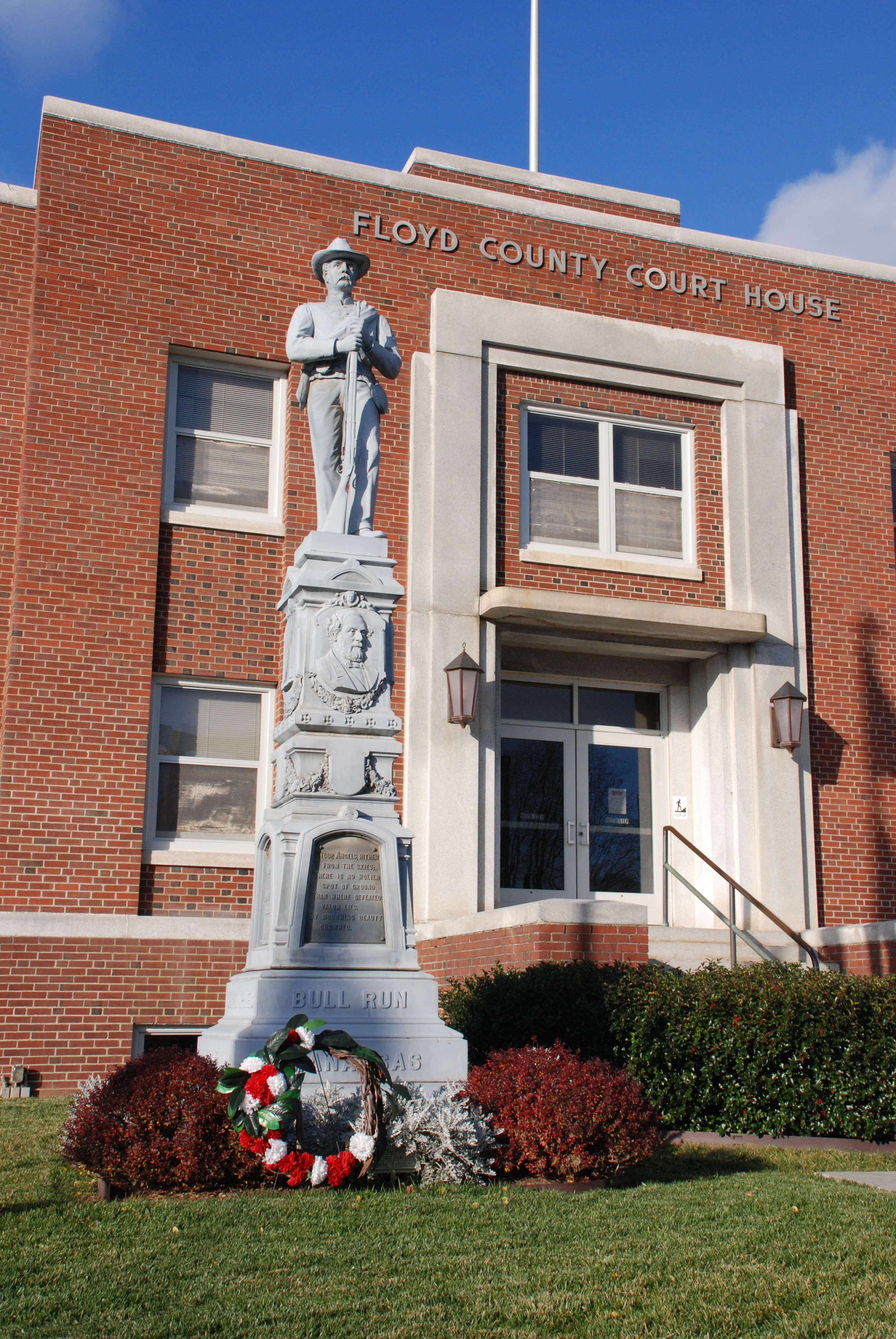 Civil War Memorial in front of Floyd County courthouse in Floyd, Virginia. Memorial Erected in 1904 by "Floyd Chapter of Doughters of the Confederacy No. 723"